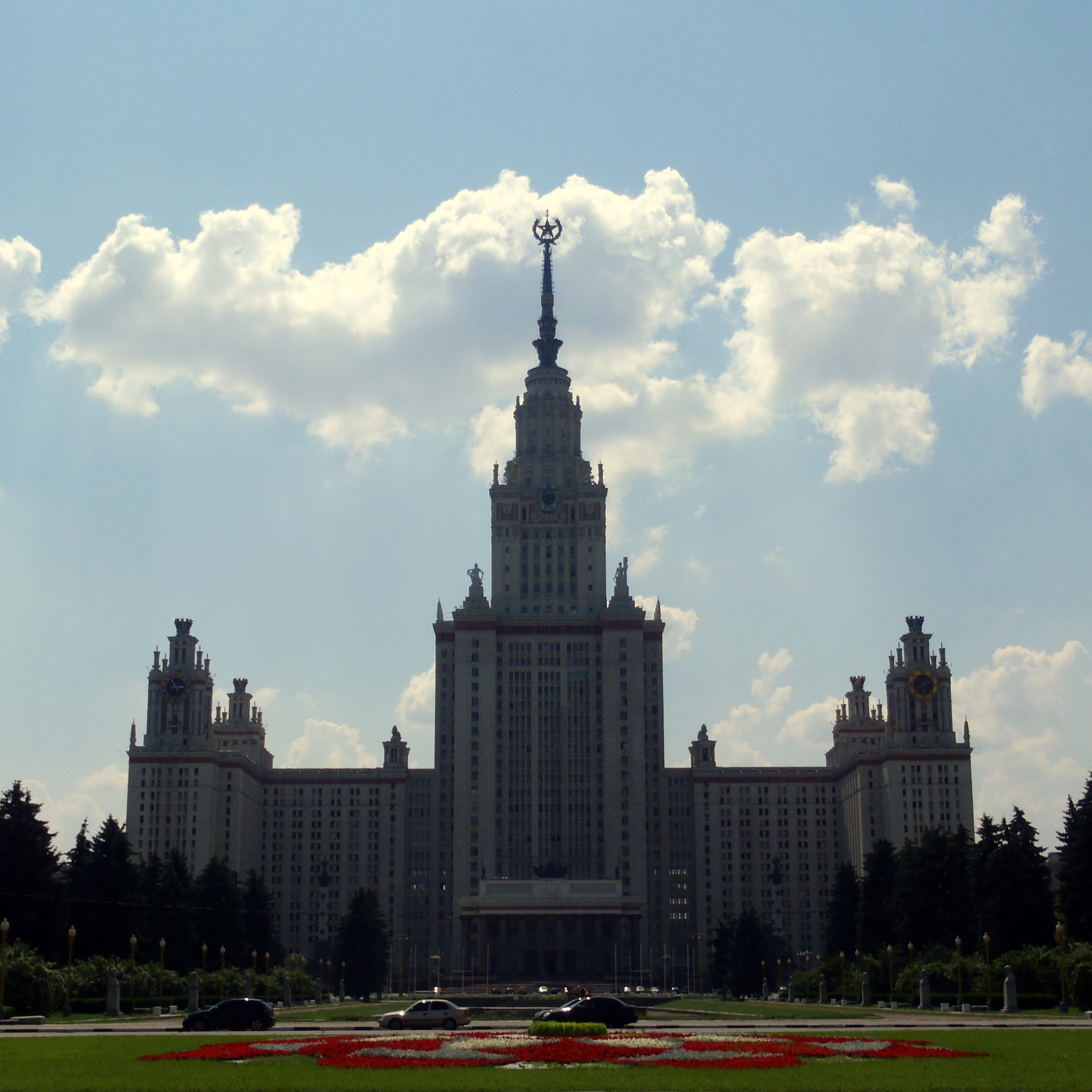 Moscow MGU university